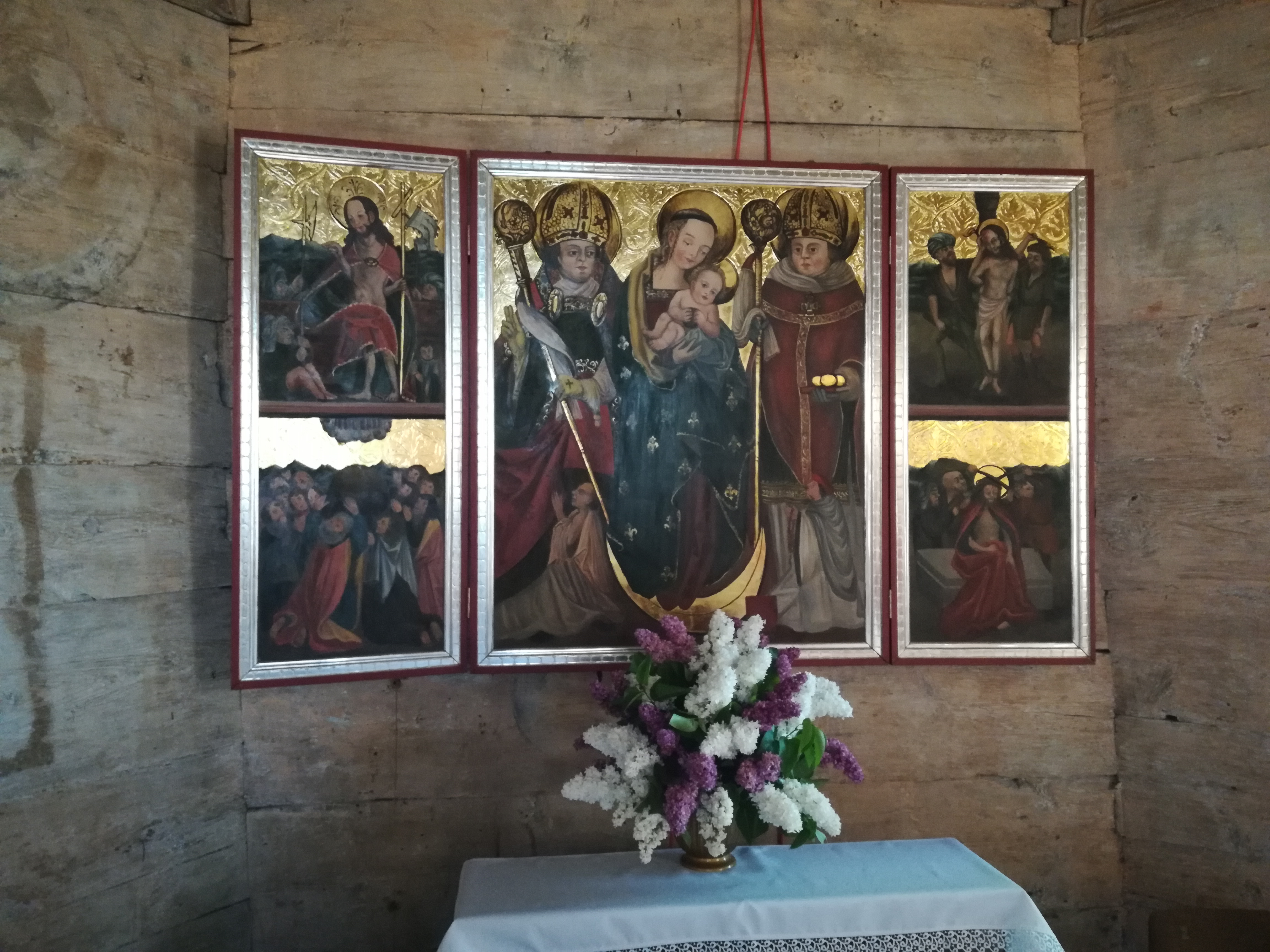 Late Gothic, wooden triptych of the Passion of the Lord, dated to the beginning of the 16th century - the church of Saint. Stanisław Biskupa in Chotelek Zielony.